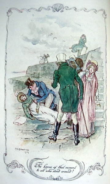 Persuasion ch 12: The horror of that moment to all who stood around (Louisa Musgrove, on the Cobb, Lyme Regis)